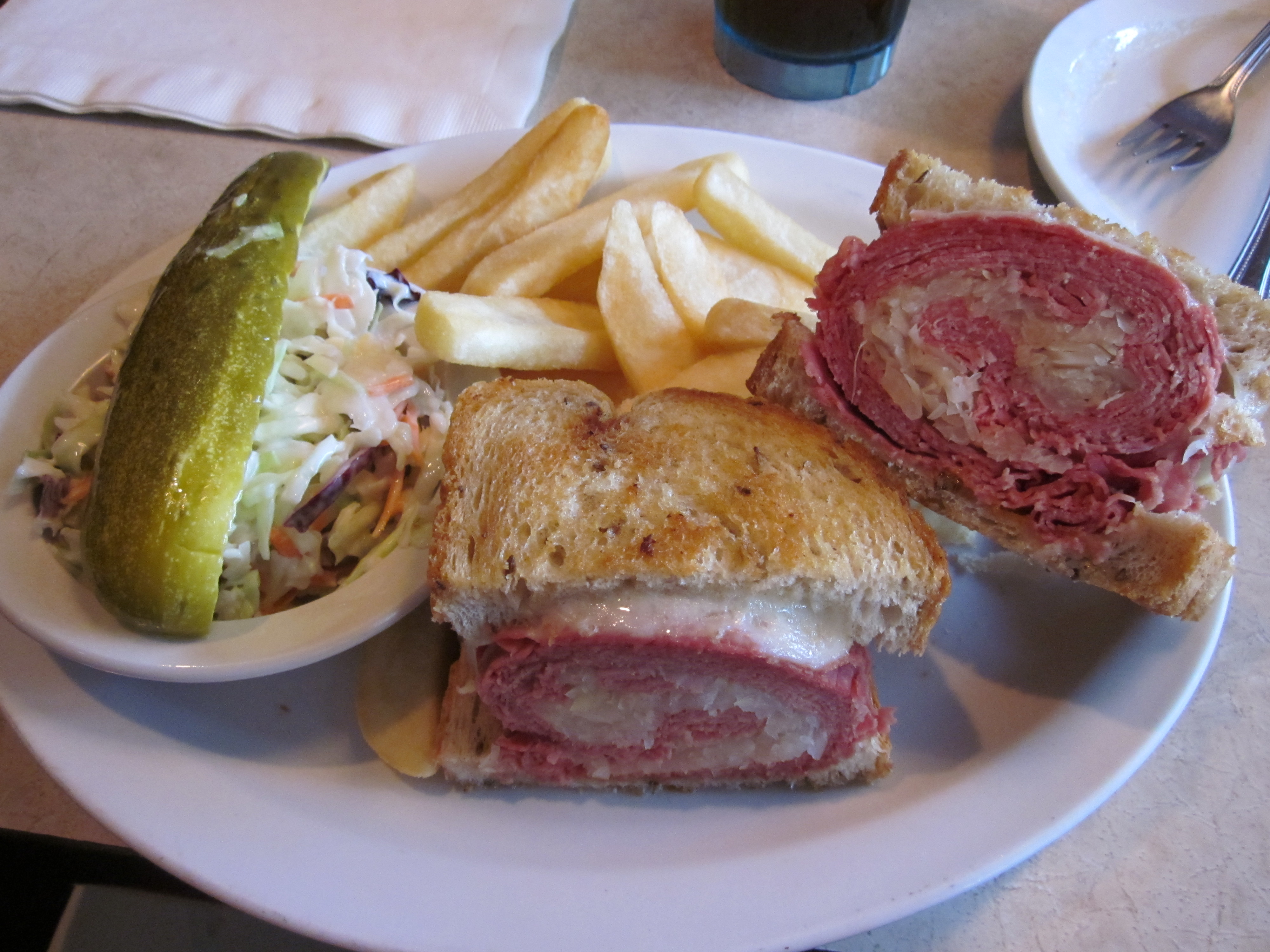 TooJays Deli, Boca Raton, Florida. Reuben sandwich.